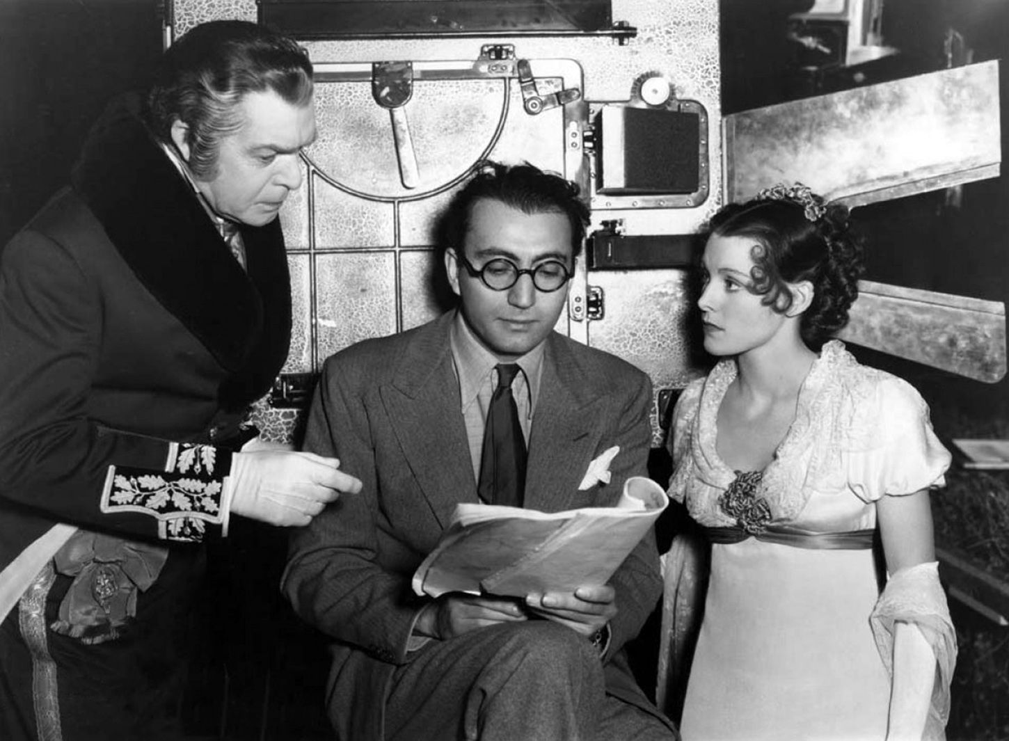 L. to R. : William Faversham, Rouben Mamoulian (director) & Frances Dee on the set of Becky Sharp - publicity still